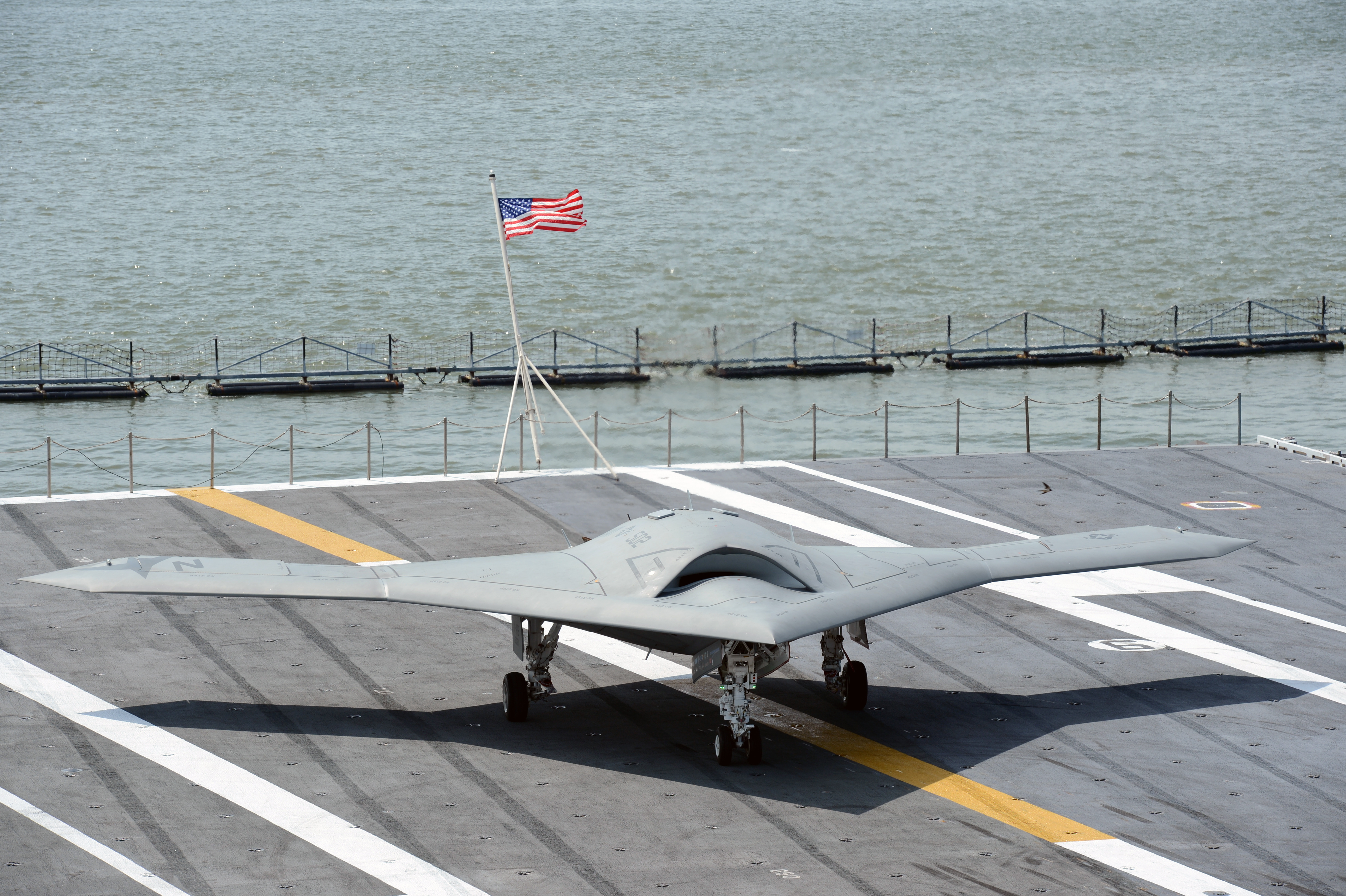 A U.S. Navy X-47B unmanned combat air system demonstrator aircraft taxis on the flight deck of the aircraft carrier USS George H.W. Bush (CVN 77) off the coast of Norfolk, Va., May 10, 2013. The George H.W. Bush was scheduled to be the first aircraft carrier to catapult-launch an unmanned aircraft from its flight deck.